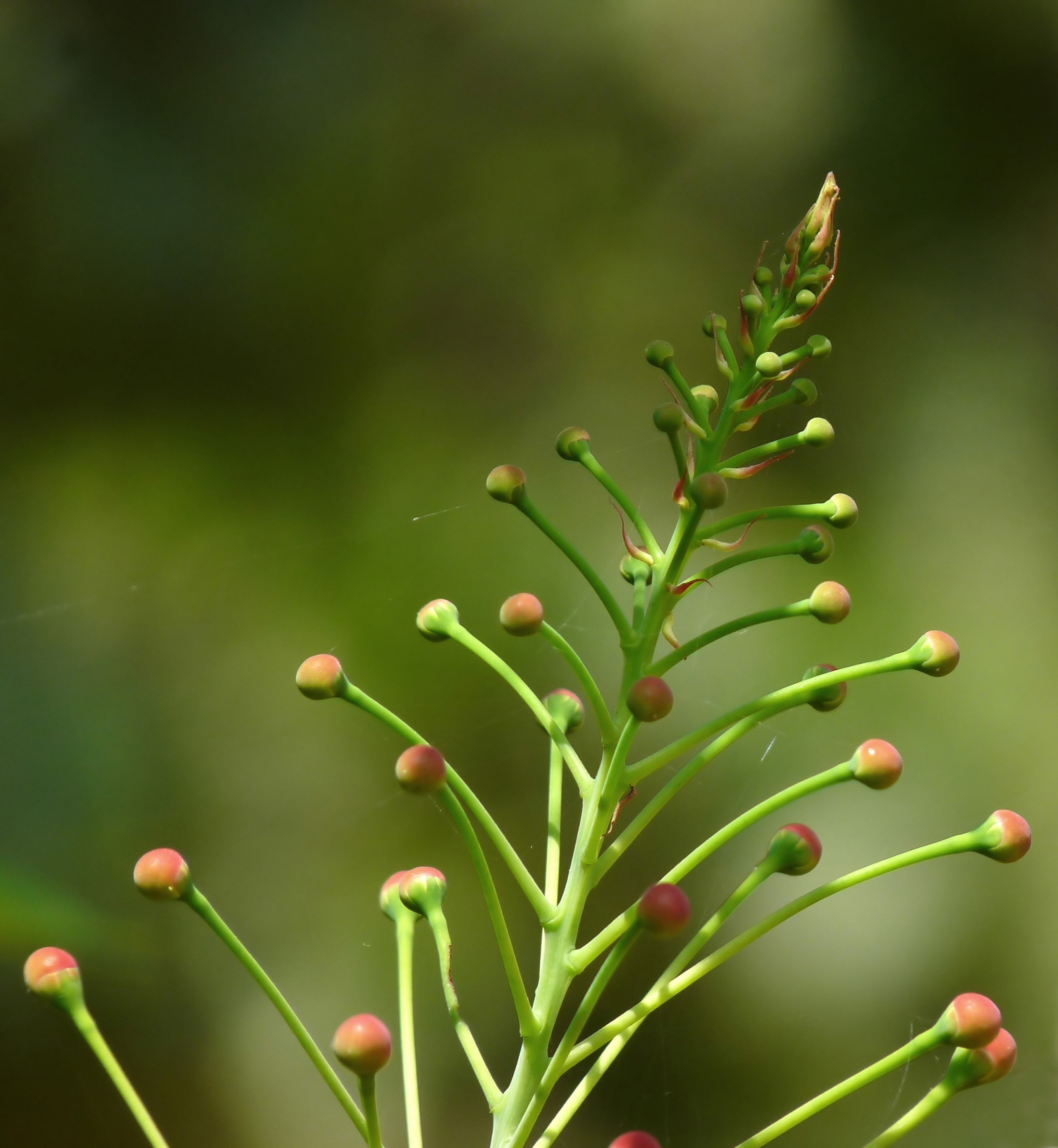 Caesalpinia pulcherrima is a species of flowering plant in the pea family, Fabaceae, that is native to the tropics and subtropics of the Americas. It could be native to the West Indies, but its exact origin is unknown due to widespread cultivation. Common names for this species include Poinciana, Peacock Flower, Red Bird of Paradise, Mexican Bird of Paradise, Dwarf Poinciana, Pride of Barbados, and flamboyan-de-jardin. It is a shrub growing to 3 m tall. The leaves are bipinnate, 20–40 cm long, bearing 3-10 pairs of pinnae, each with 6-10 pairs of leaflets 15–25 mm long and 10–15 mm broad. The flowers are borne in racemes up to 20 cm long, each flower with five yellow, orange or red petals. The fruit is a pod 6–12 cm long. Red Bird of Paradise is the national flower of the Caribbean island of Barbados, and is depicted on the Queen's personal Barbadian flag.